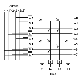 ROM